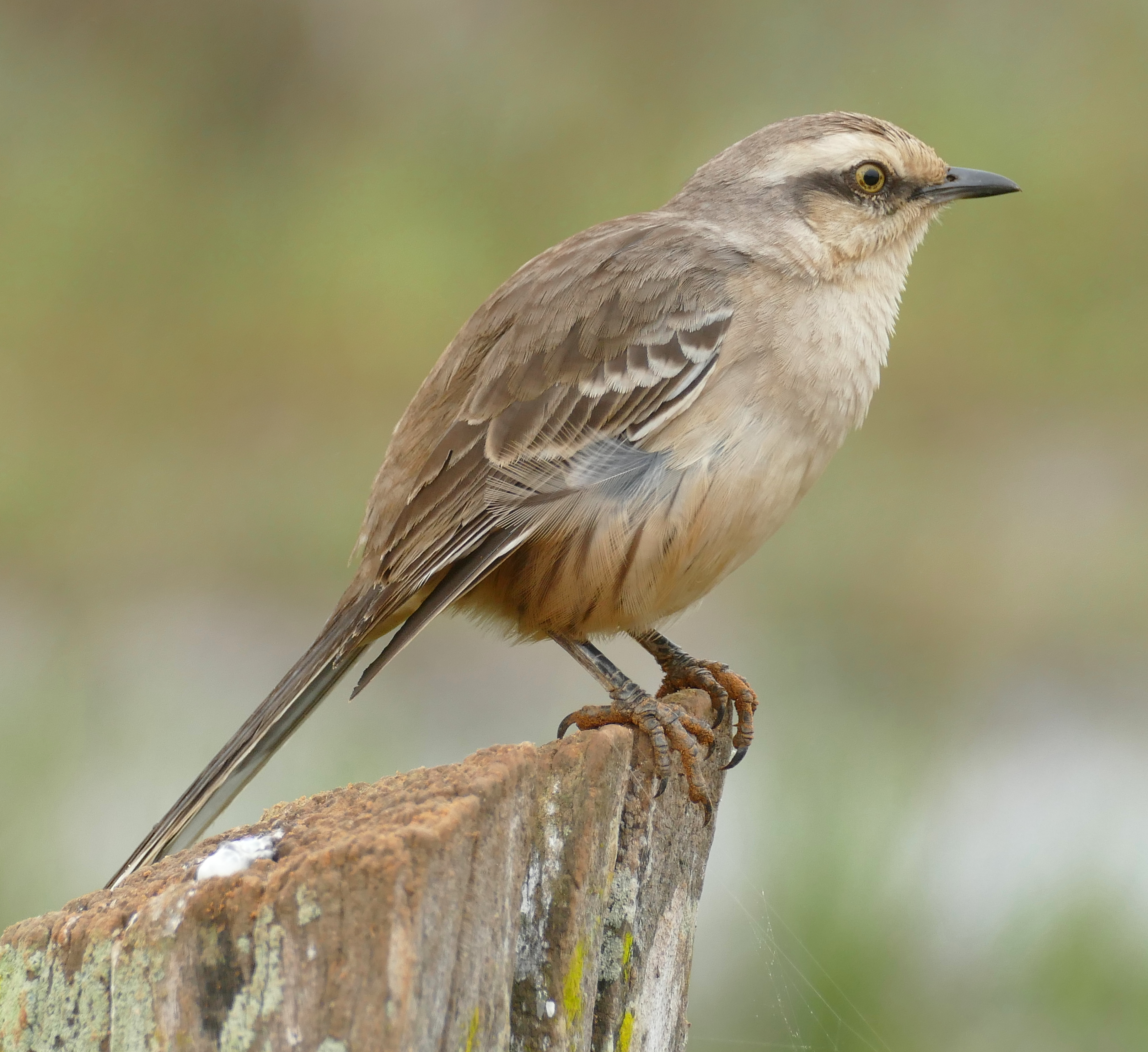 Transpantaneira, Poconé, Mato Grosso, BRAZIL